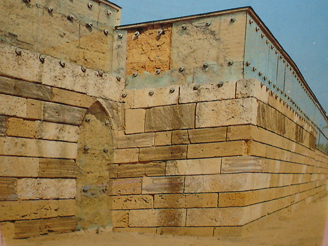 Walls of Timoleon in Gela (Sicily)